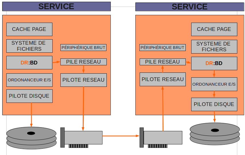 overview of drbd in the system. Inspired from The openoffice source is freely available on demand. This picture may evolve.